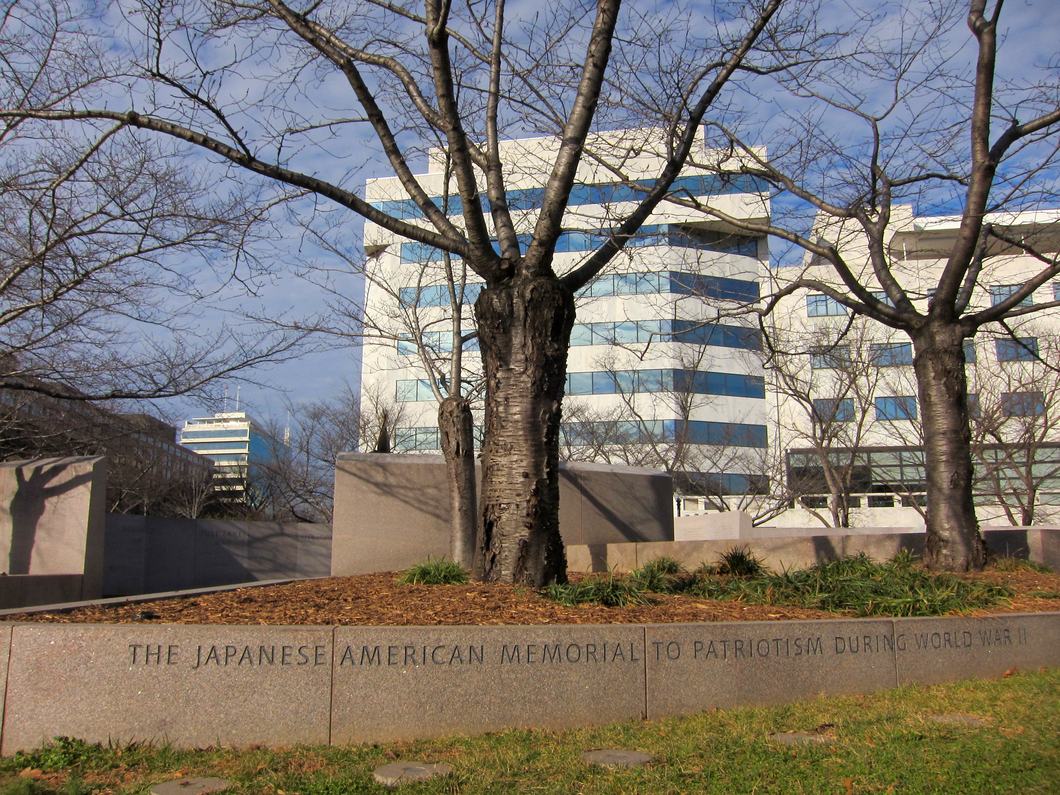 Japanese American Memorial to Patriotism During World War II in Washington, D.C.